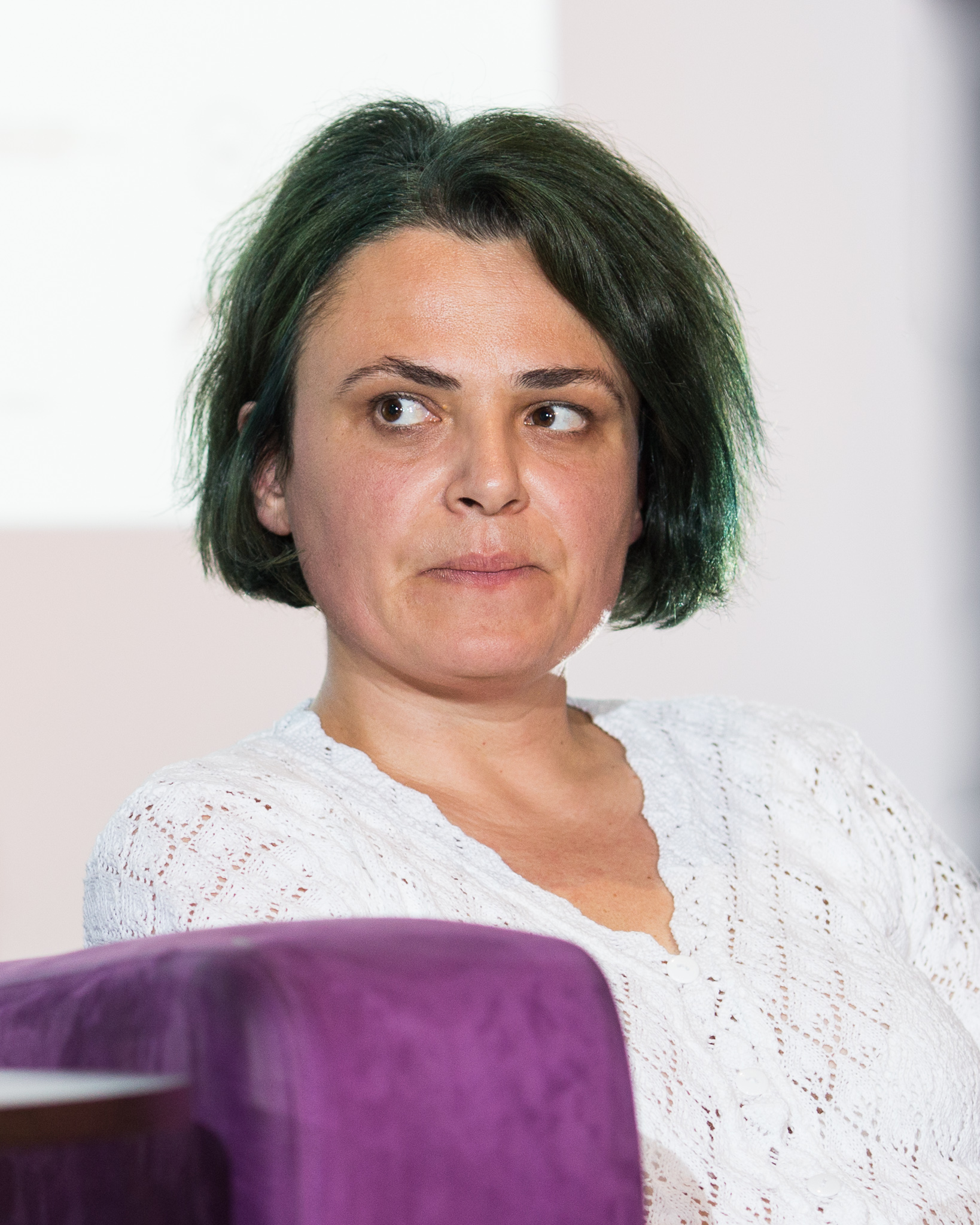 Tamta Melashvili on Authors’ Reading Month 2017, Wrocław, Poland